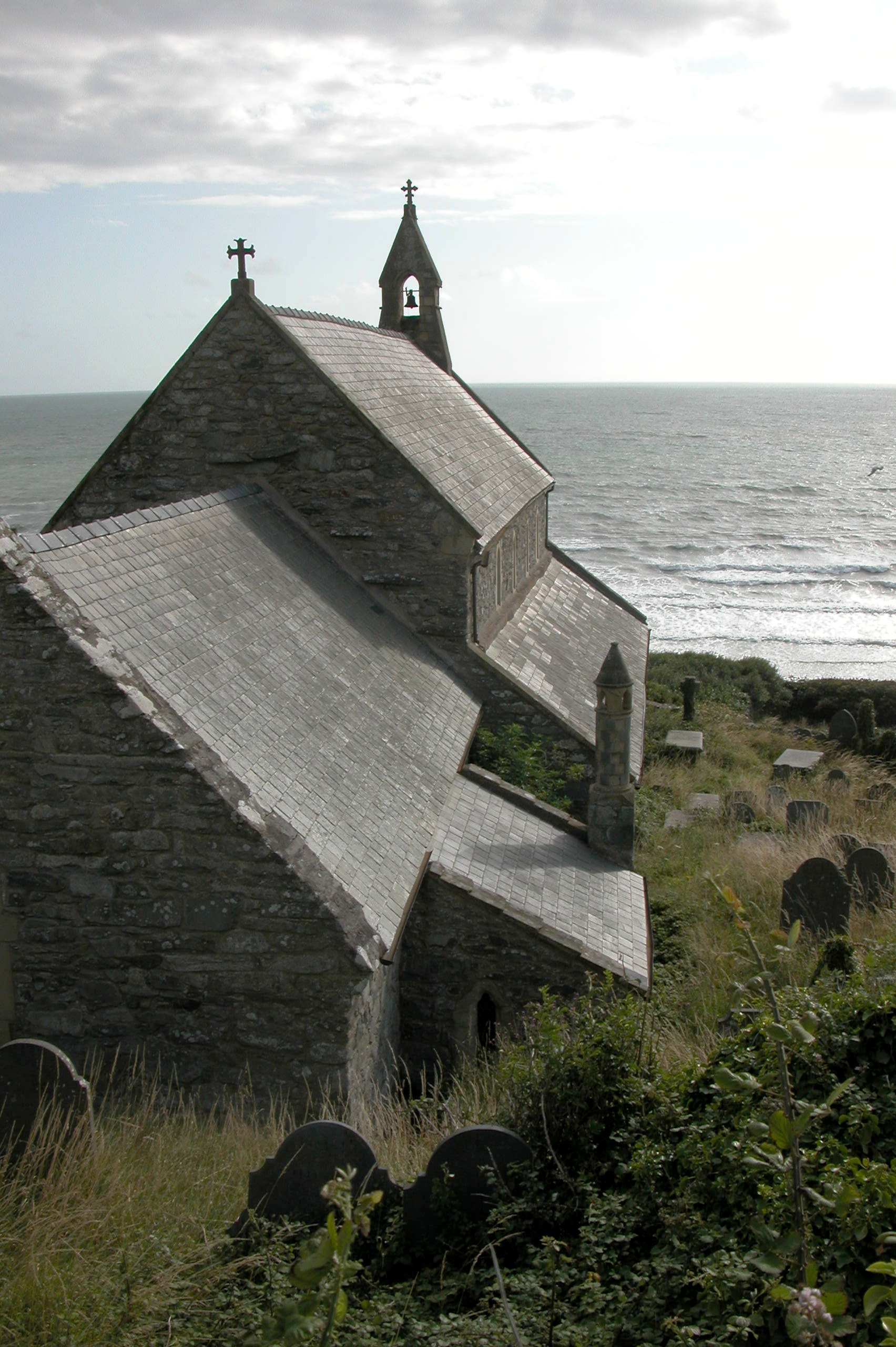 Norman Church St. Mary and Bodfan in Llanaber (Barmouth), Wales